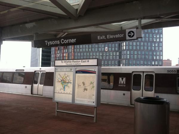 US DOT photo of the newly opened "Tysons Corner" Metrorail station